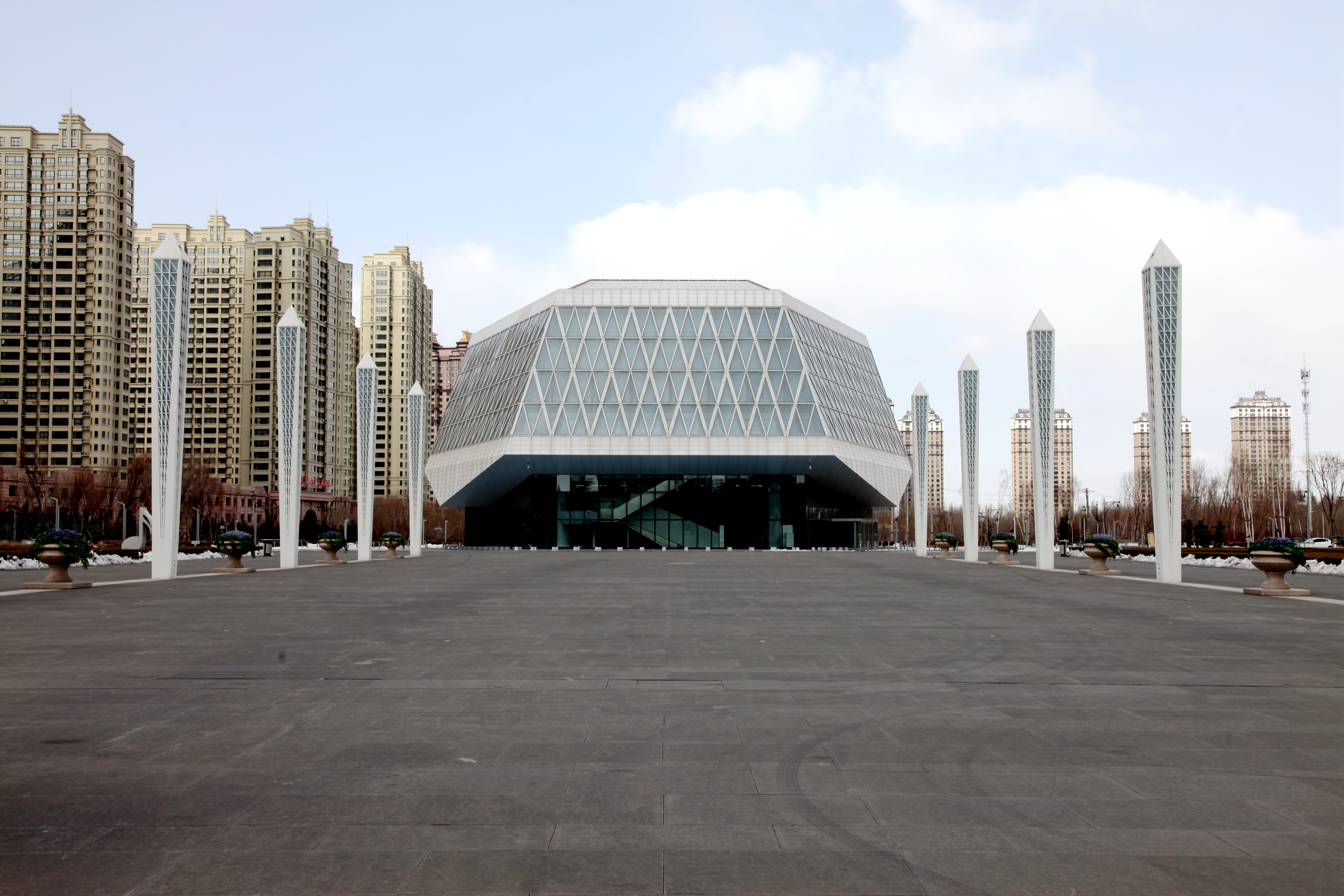 New Concert Hall in Harbin, Heilongjiang, China.